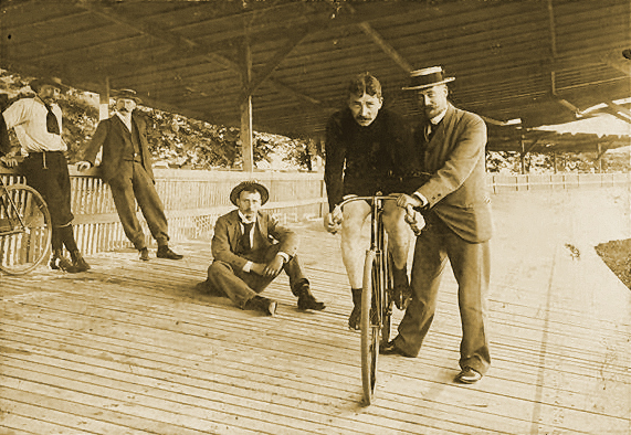 Jaap Eden at the cycling track in Willemspark, Amsterdam)